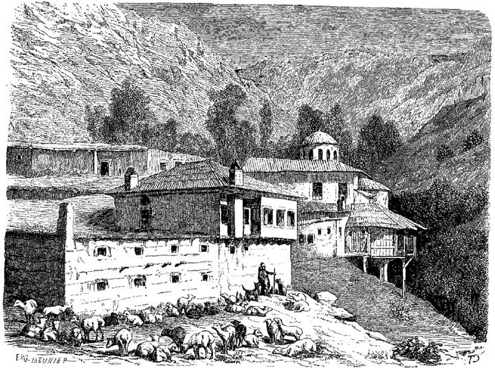 Gravure of armenian monastery near Trebizond (Gümüshane, Süleymaniye district).